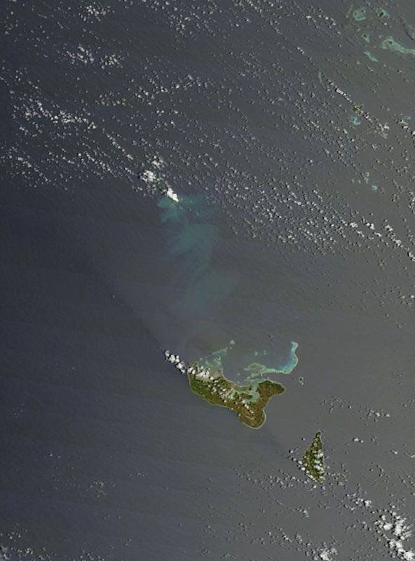 NASA’s Terra satellite on December 29, 2014, showing a white plume rising over the undersea volcano Hunga Ha’apai, near Hunga Tonga in the South Pacific. Discolored water suggests an underwater release of gases and rock by the eruption.